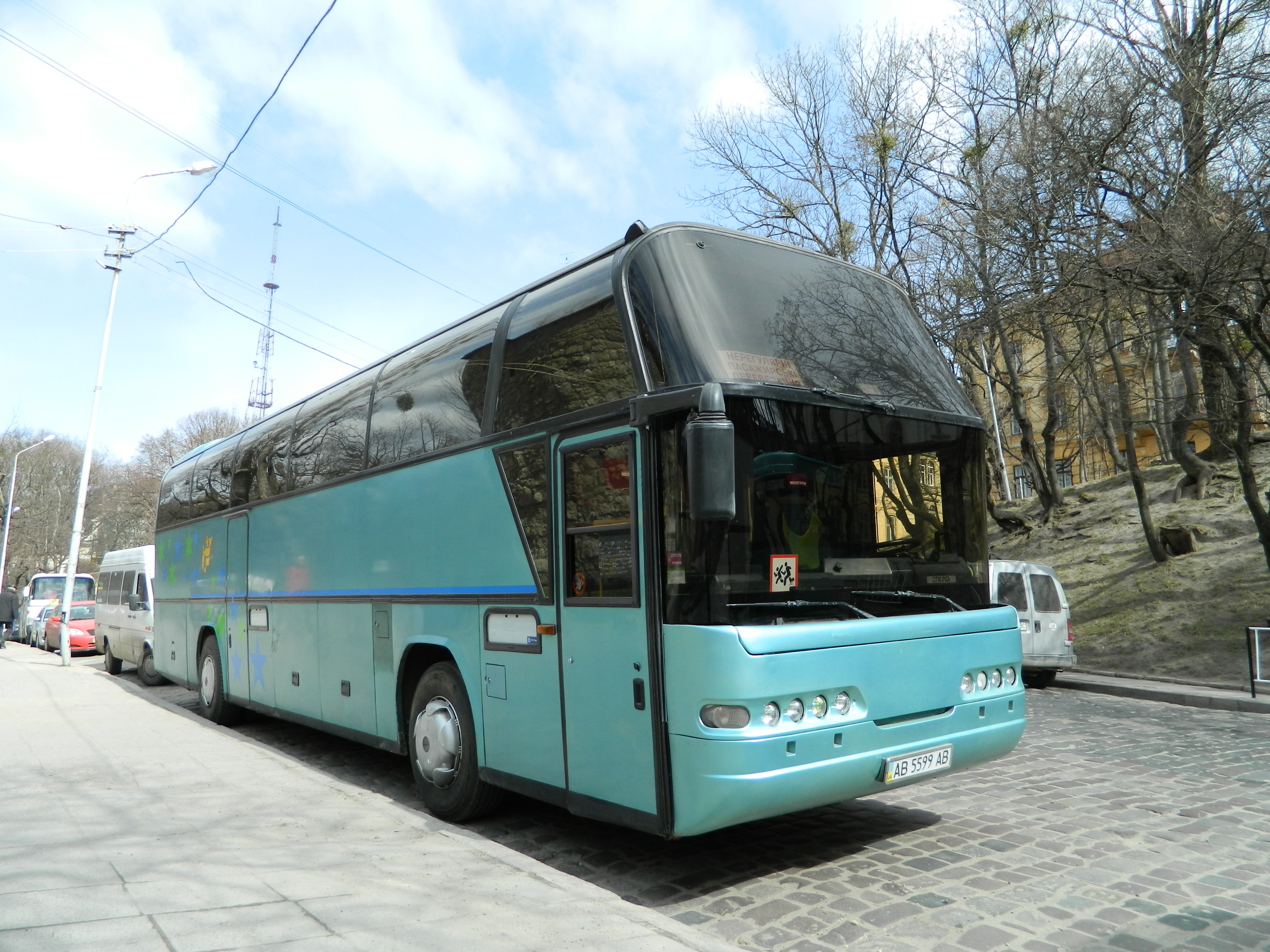 Neoplan N116 Cityliner, generation built 2002-2005, pt number AB 5599 AB